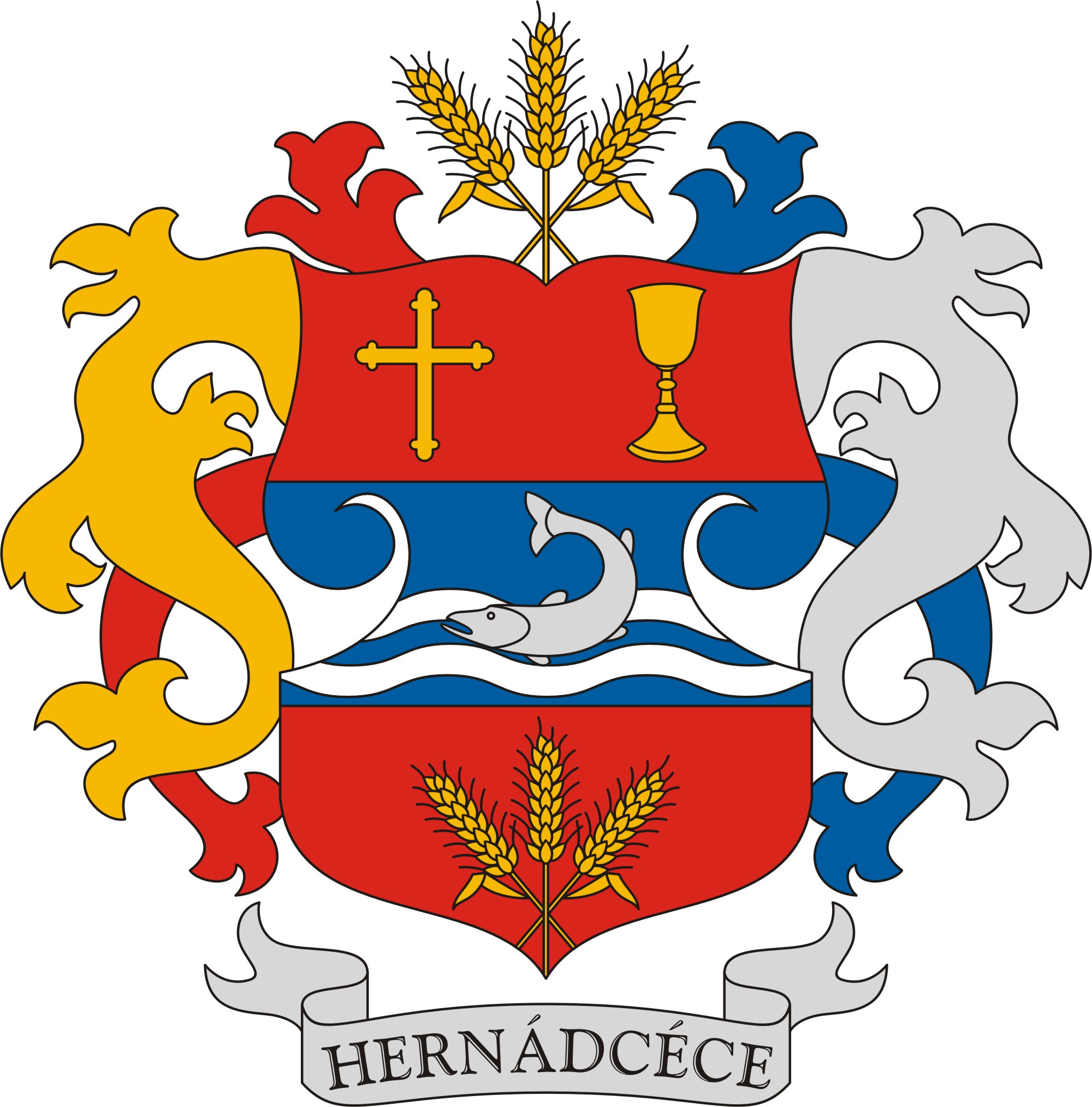 Coat of arms of Hernádcéce, Hungary